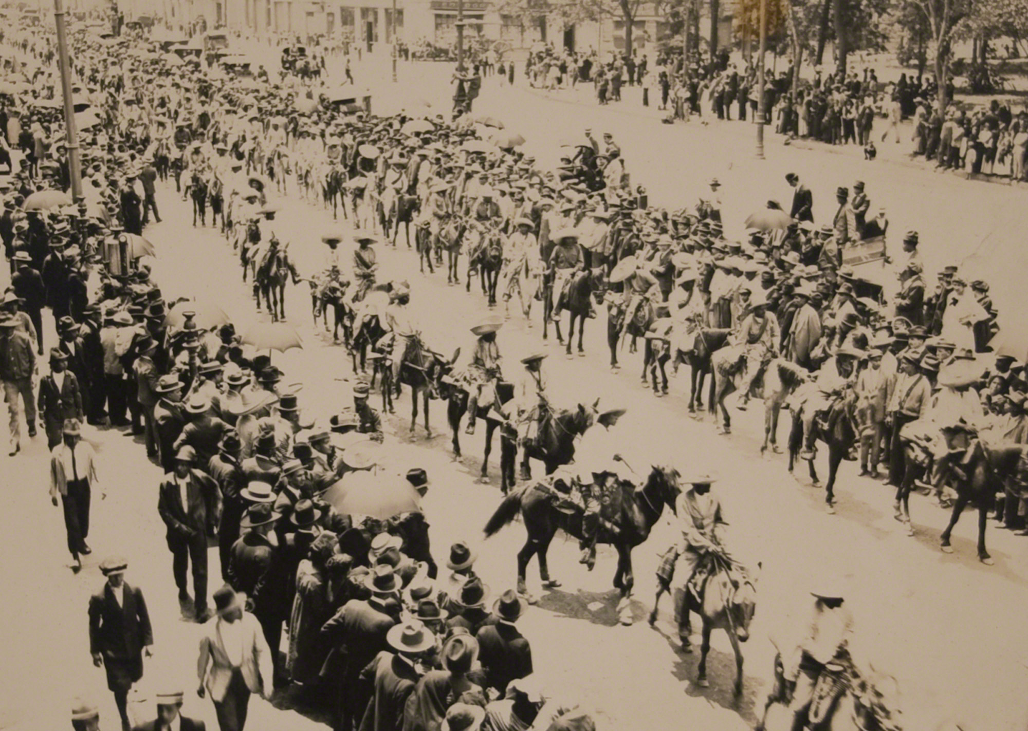 Title: Entrance of Zapatistas in Mexico City Artist: Sumner W. Matteson, Jr. Artist Bio: American, 1867 - 1920 Creation Date: 1907 Process: gelatin silver print Credit Line: Gift of Arthur Ollman Accession Number: 1996.008.002